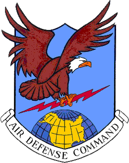 Emblem of the United States Air Force Air Defense Command (1946-1968)